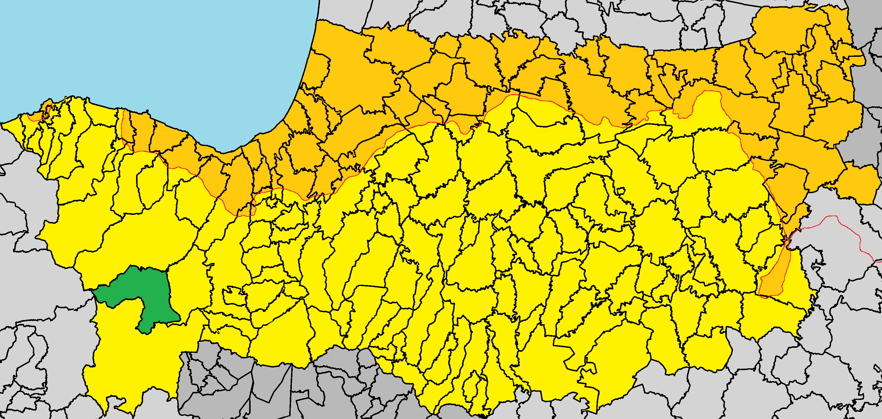 Tsakistra in Nicosia District.